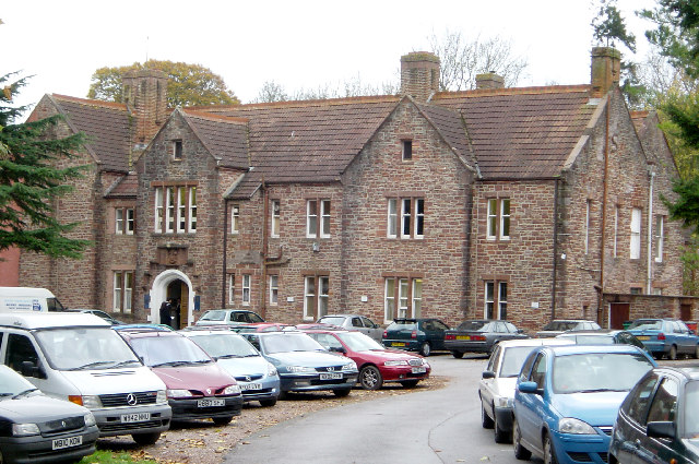 Torquay Boys Grammar School, Shiphay. One of the earlier buildings of the Boys Grammar School.